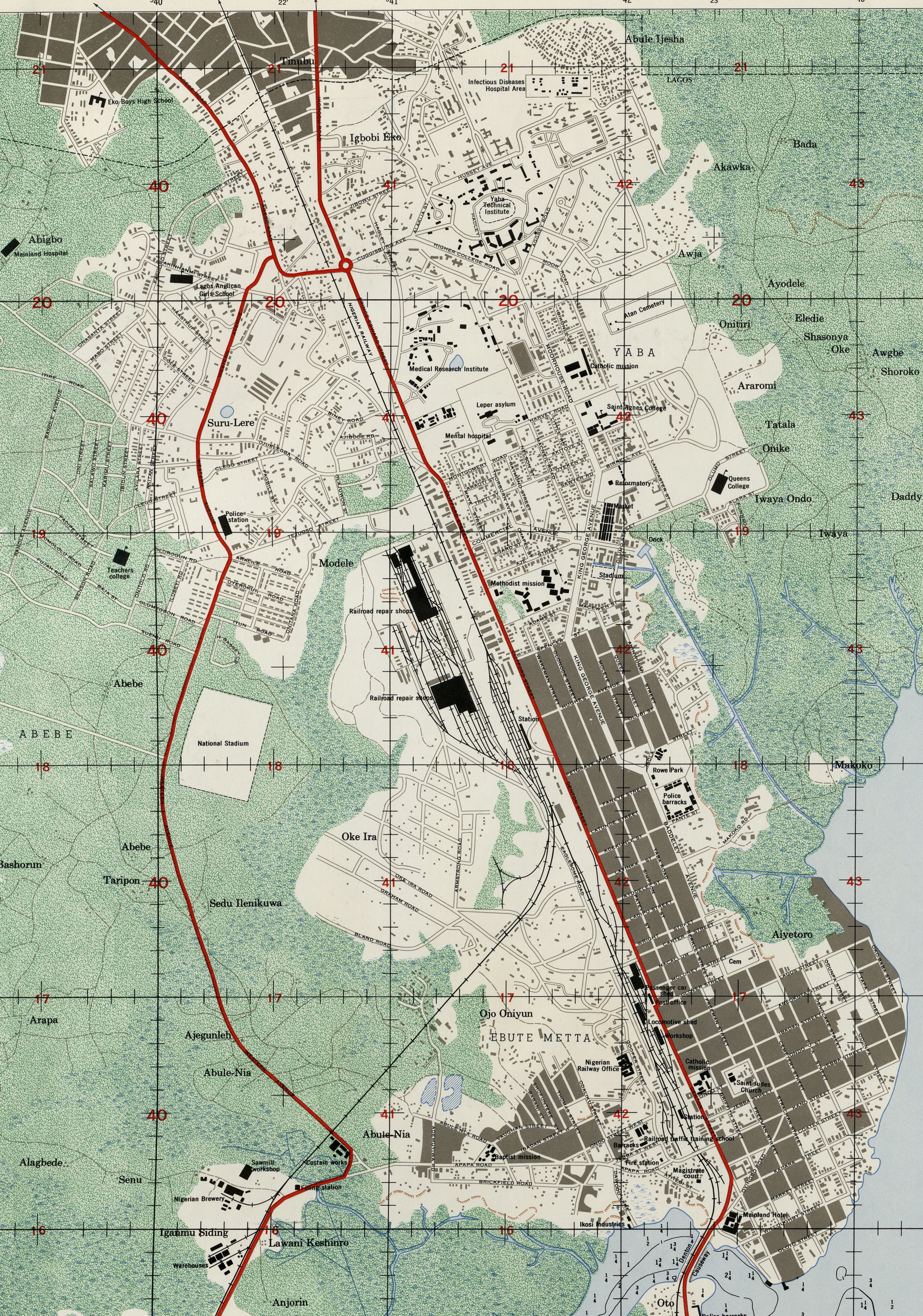 Detail of Map of Lagos, Nigeria, 1962